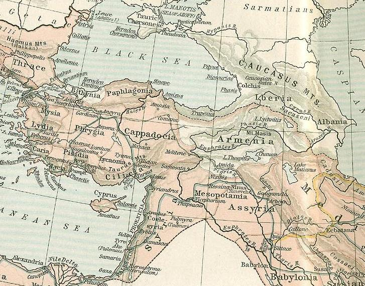 The Macedonian Empire, 336-323 B.C. AND Kingdoms of the Diadochi . Historical Atlas by William R. Shepherd, 1911. Courtesy of the University of Texas Libraries, The University of Texas at Austin. From The Historical Atlas by William R. Shepherd, 1911 edition